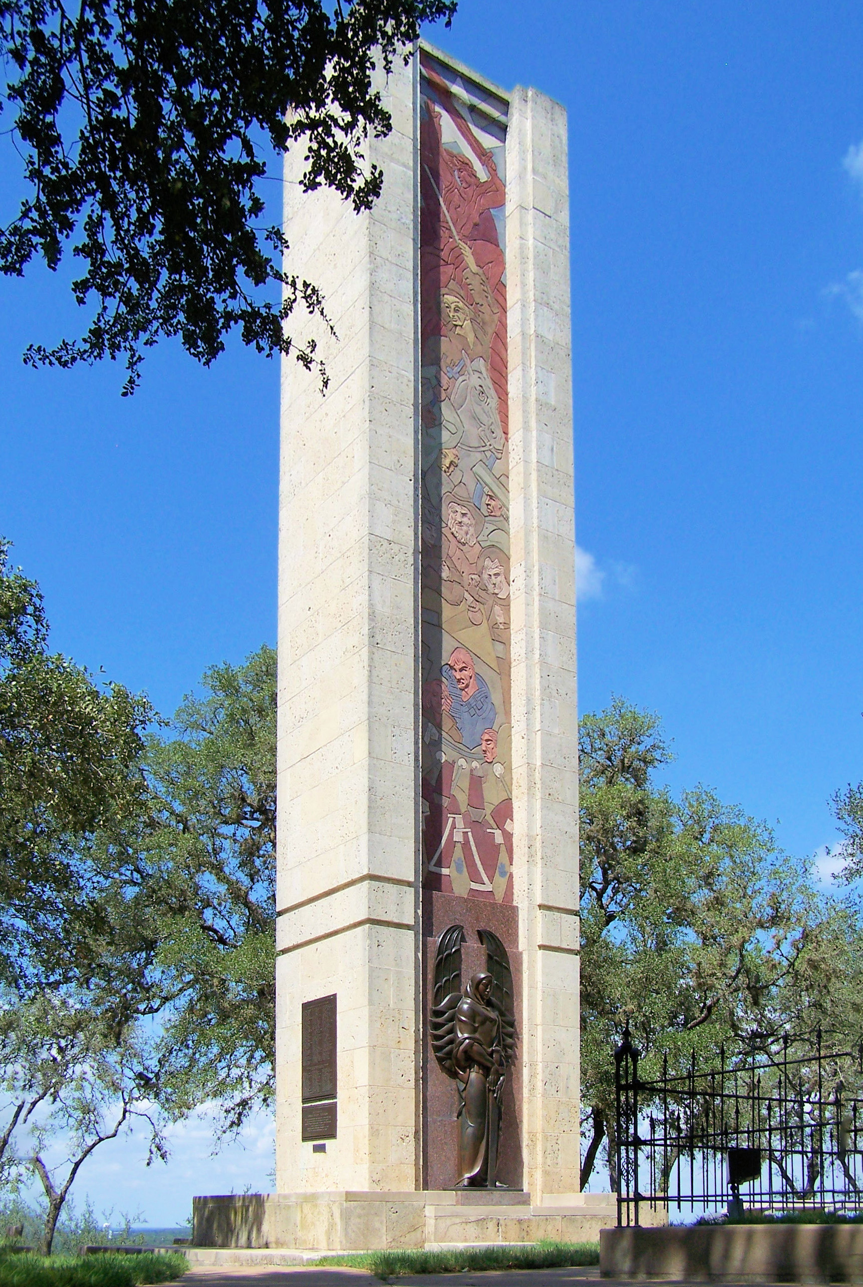 The Mier Expedition and Dawson’s Men Monument and Tomb at Monument Hill and Kreische Brewery State Historic Sites south of La Grange, Texas, United States. For the 1936 Texas Centennial, the Texas Centennial Commission commissioned this 48-foot (15 m) shellstone monument with an Art Deco mural to prominently mark the mass grave of the men who perished in the Dawson Massacre and Mier Expedition. Page & Southerland designed the shellstone monument. It features a 35-foot-tall pigmented concrete mural, produced by Pierre Bourdelle, that depicts the “Black Bean Episode” of the Mier Expedition in low relief. Sculptor Raoul Josset produced a 10-foot-tall bronze high-relief statue of an angel at the monument base. The monument was completed in 1937 and listed on the National Register of Historic Places on March 6, 2019.